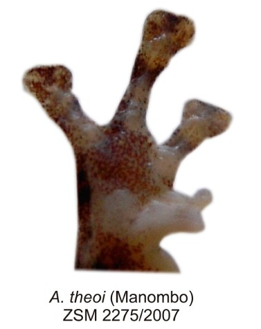 Views of palmar surfaces of male of Anodonthyla theoi frog, showing relative size and degree of separation of first finger and prepollex.